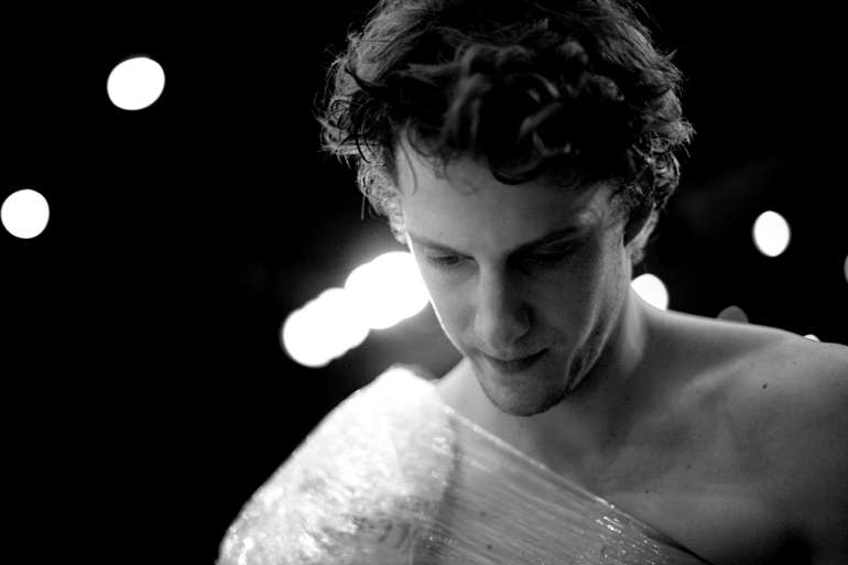 Steve Klosterman after final game in University league.